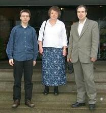 On the Photo: Cornelissen, Gunther (left), Shlapentokh, Alexandra (middle), Matiyasevich, Yuri (right) - Occasion:Mini-Workshop: Hilbert's Tenth Problem, Mazur's Conjecture and Divisibility Sequences - Location: Oberwolfach - Author: Schmid, Renate - Source: MFO - Year: 2003 - Copyright: MFO - Photo ID: 6700